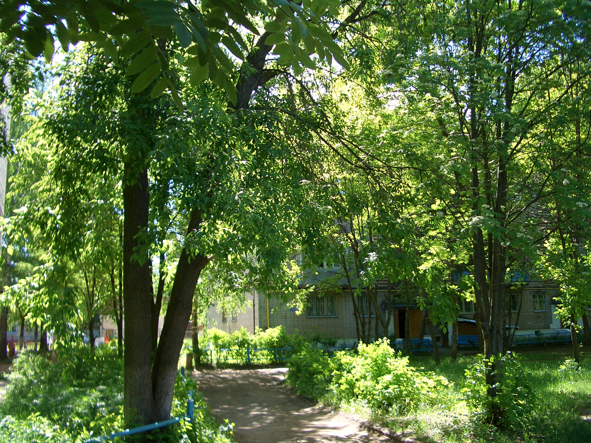 This section of Kstovo, built up with late-1960s apartment buildings, is now a quiet, leafy neighborhood